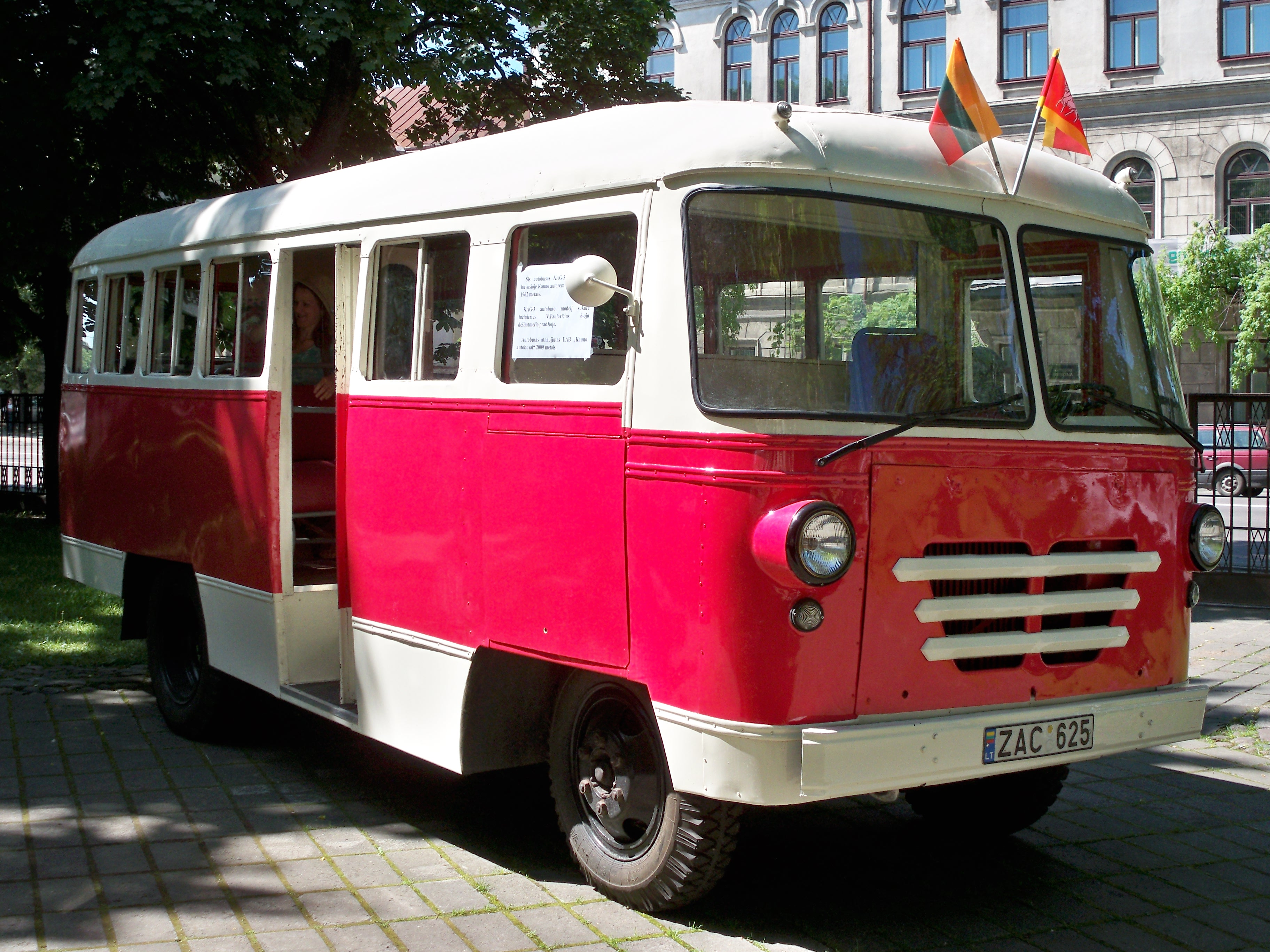 KAG-3 bus in Kaunas.